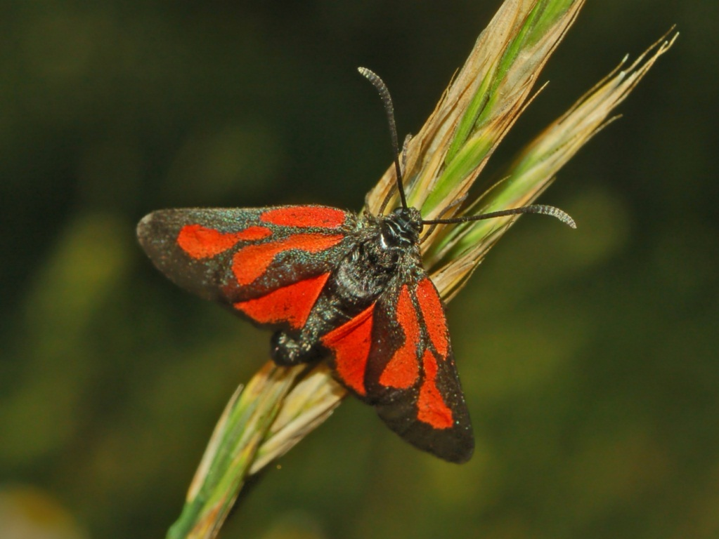 Zygaenidae - Zygaena oesteodensis